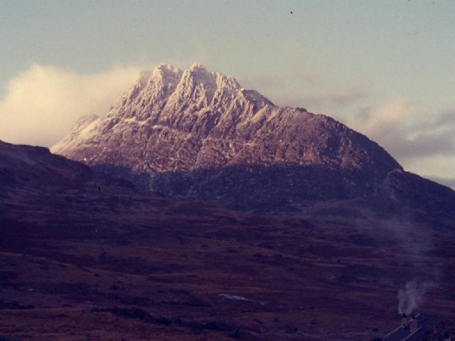 Tryfan at Dawn. Note the thin line running slightly down from Bwlch Tryfan, the col on the left, towards the bottom of the North Ridge on the right. This is the Heather Terrace, a walk up to the col (saddle) from where it is an easy scramble to the top.